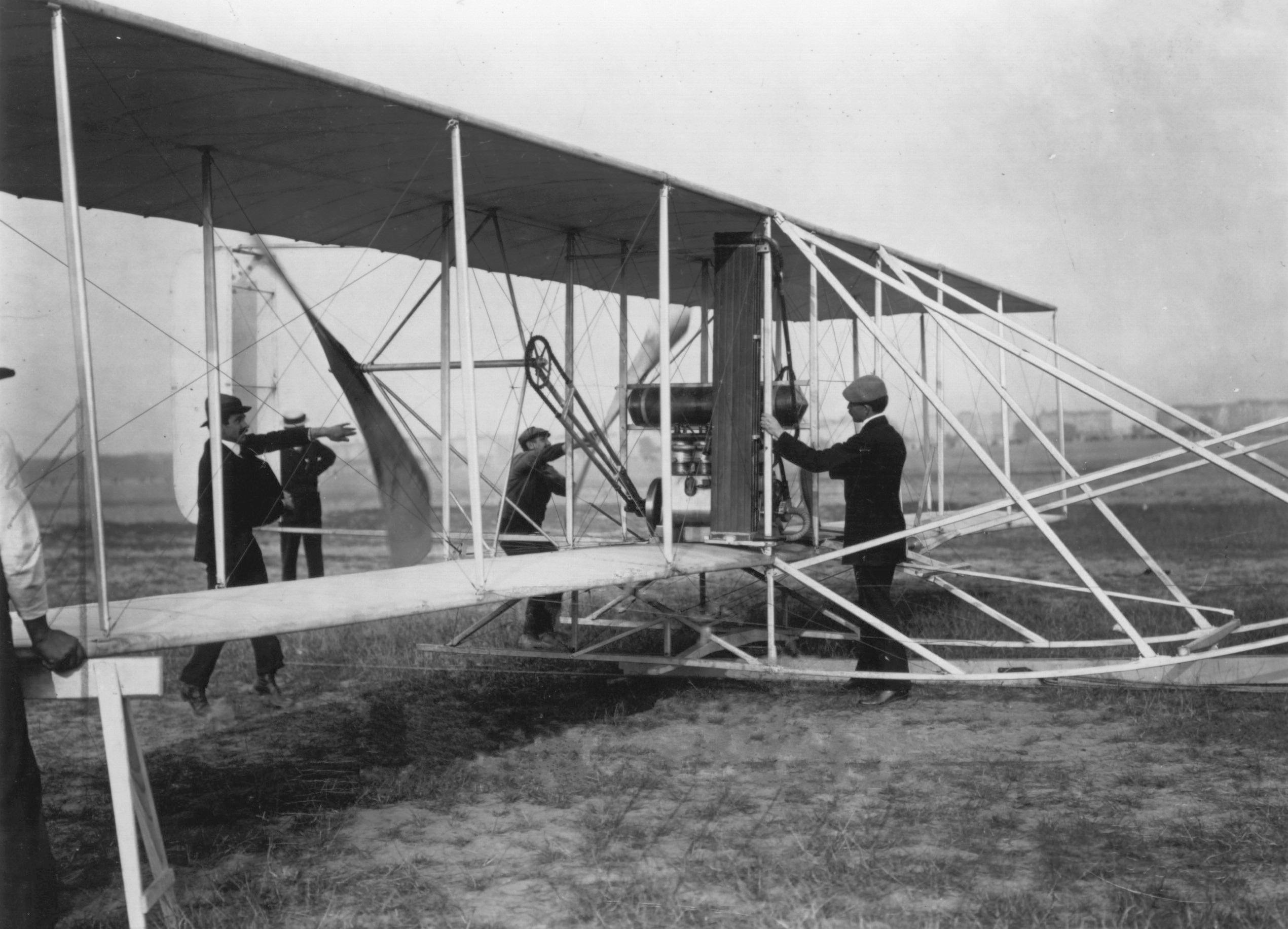 Orville Wright is shown at Tempelhof Field in Berlin.